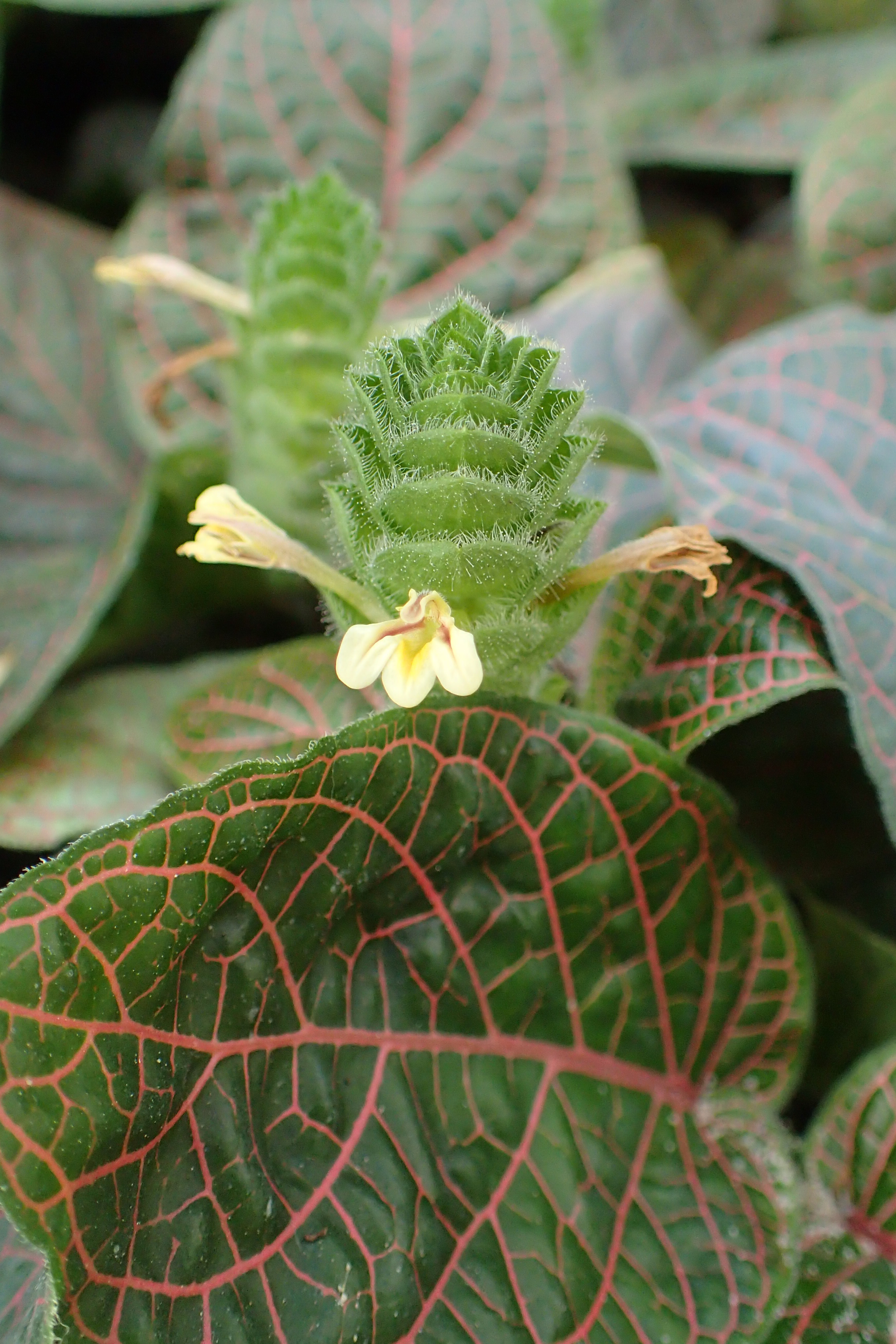 Fittonia gigantea in PAN Botanical Garden in Warsaw